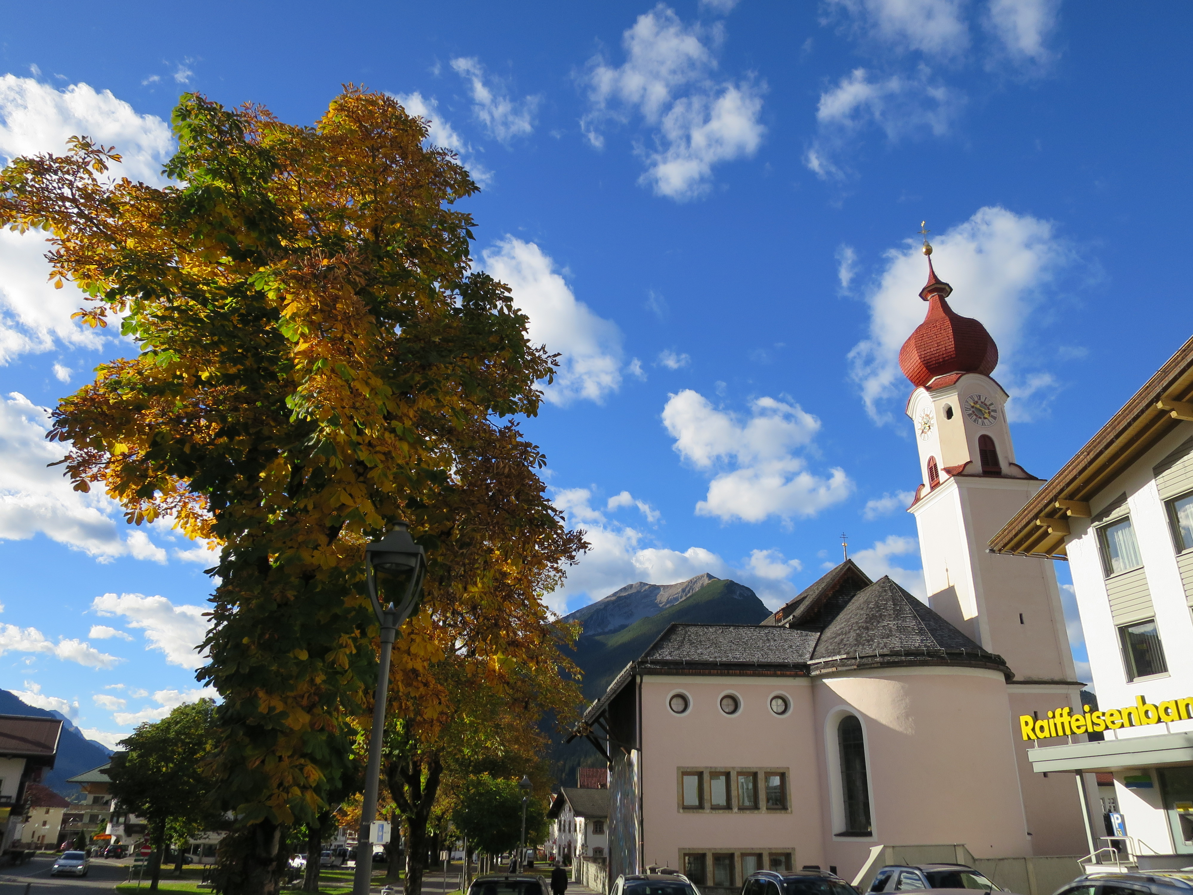 Pfarrkirche Mariä Heimsuchung Ehrwald